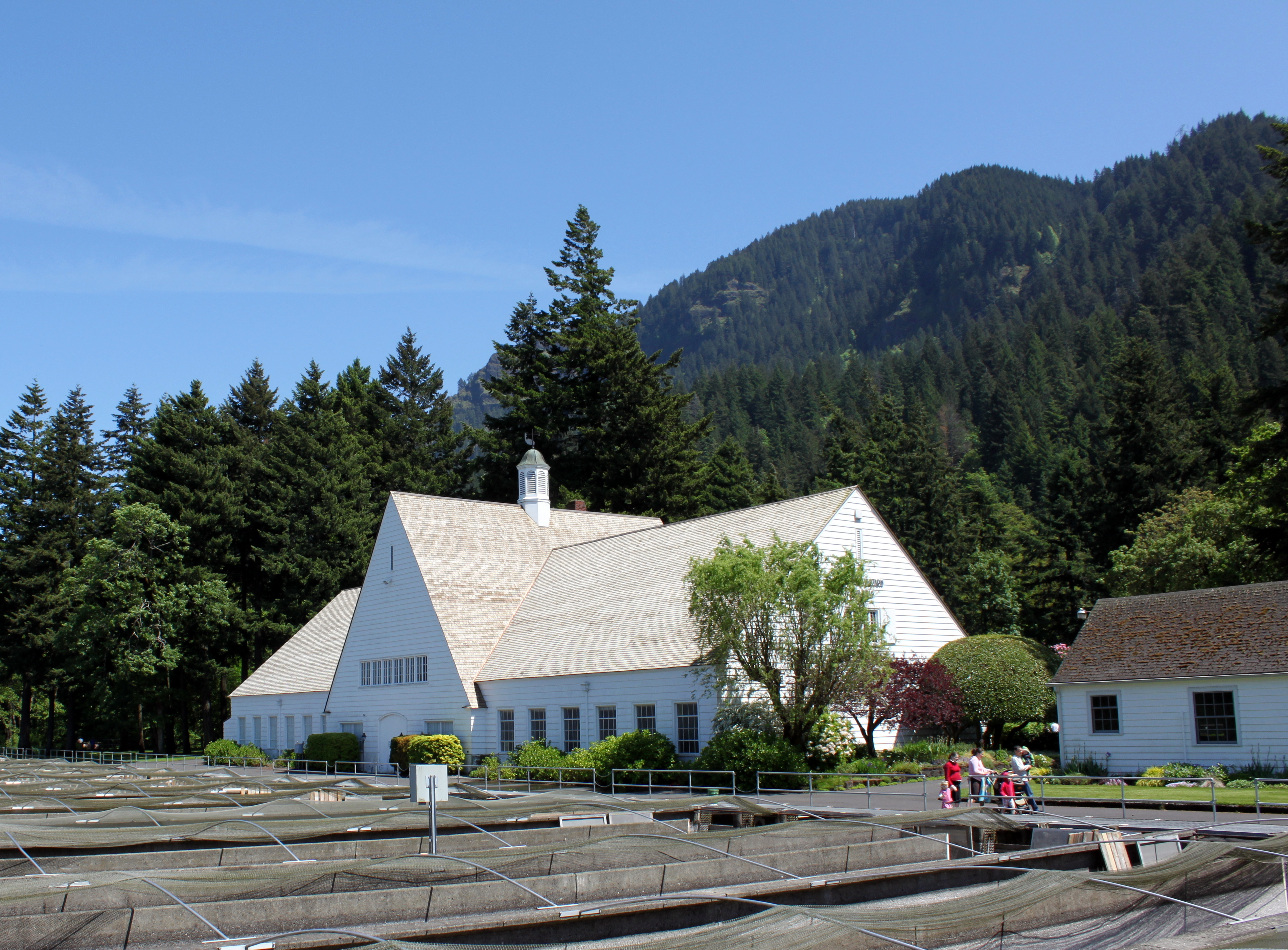 Historic incubation building at the Bonneville Fish Hatchery, Bonneville, Oregon. Building was likely built in 1909.